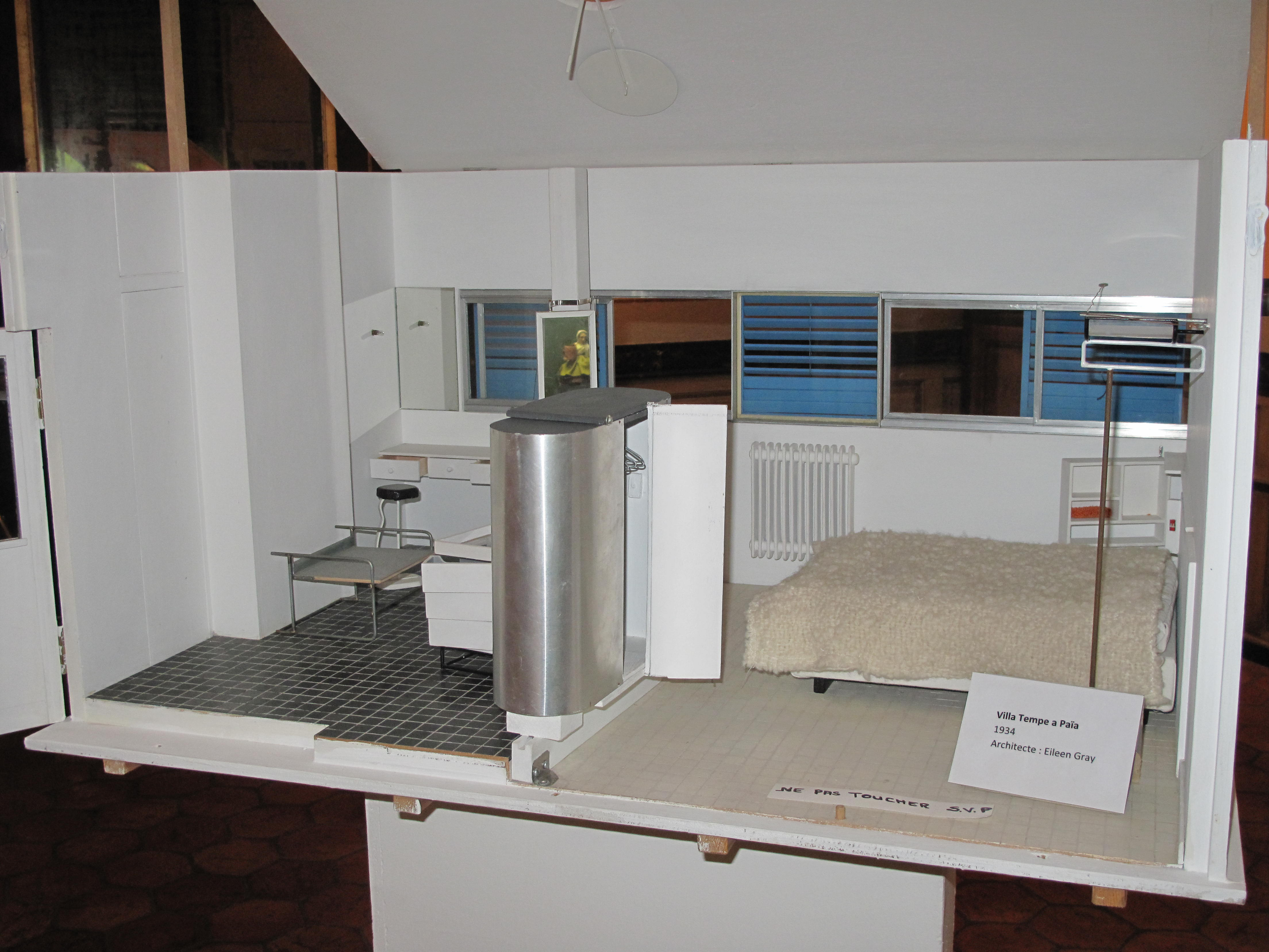 A model of the interior of the villa Tempe a Paia on display during a temporary exhibition about Eileen Gray in the hotel d'Adhémar de Lantagnac in Menton (Alpes-Maritimes, France).